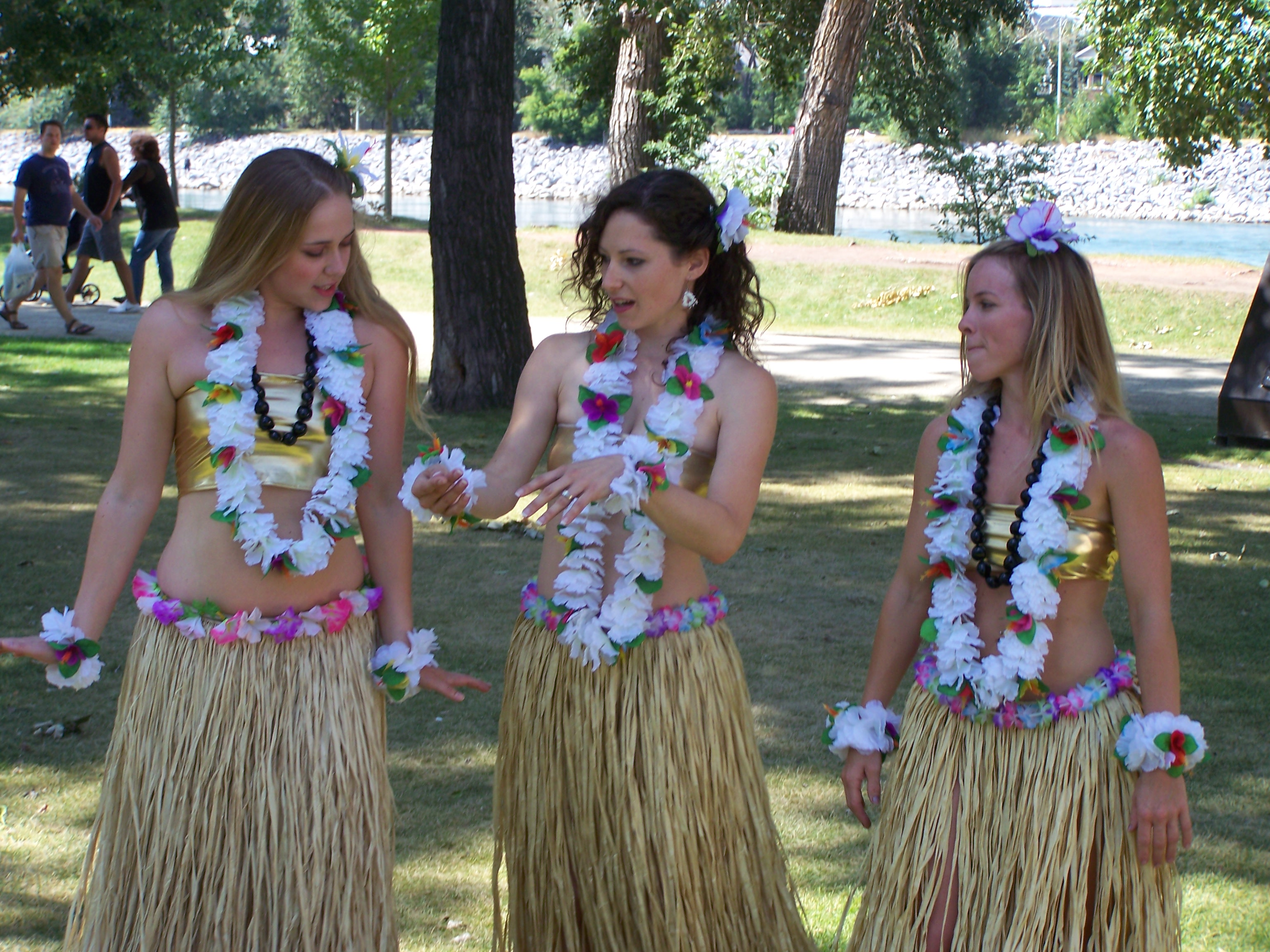 This is a picture of three dancers who performed as part of the Heritage Day at Prince's Island in Calgary, Alberta, Canada. This picture was from a photo-op, right after the performance.